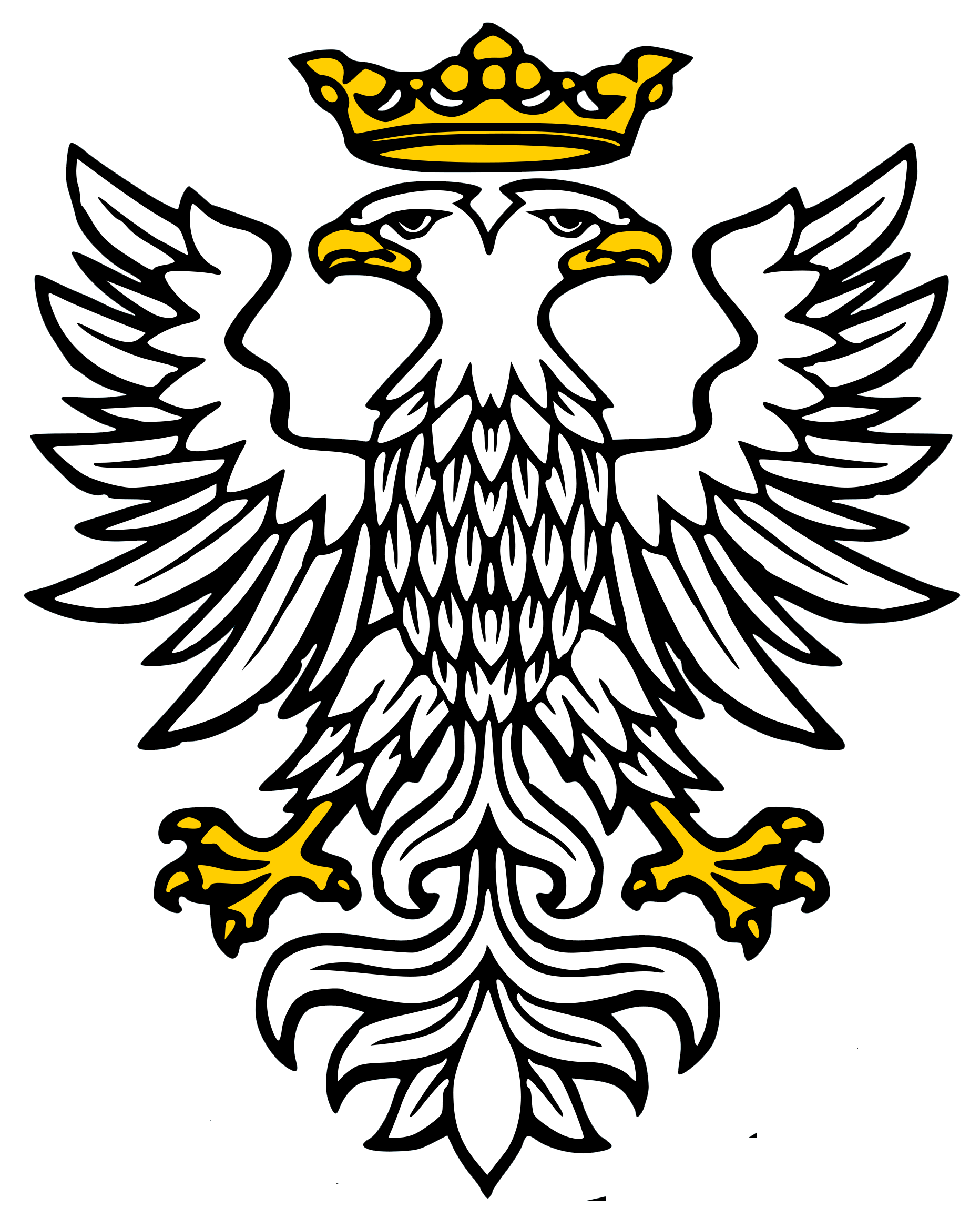 Restoring a previous and more accurate version of Mercia eagle.png